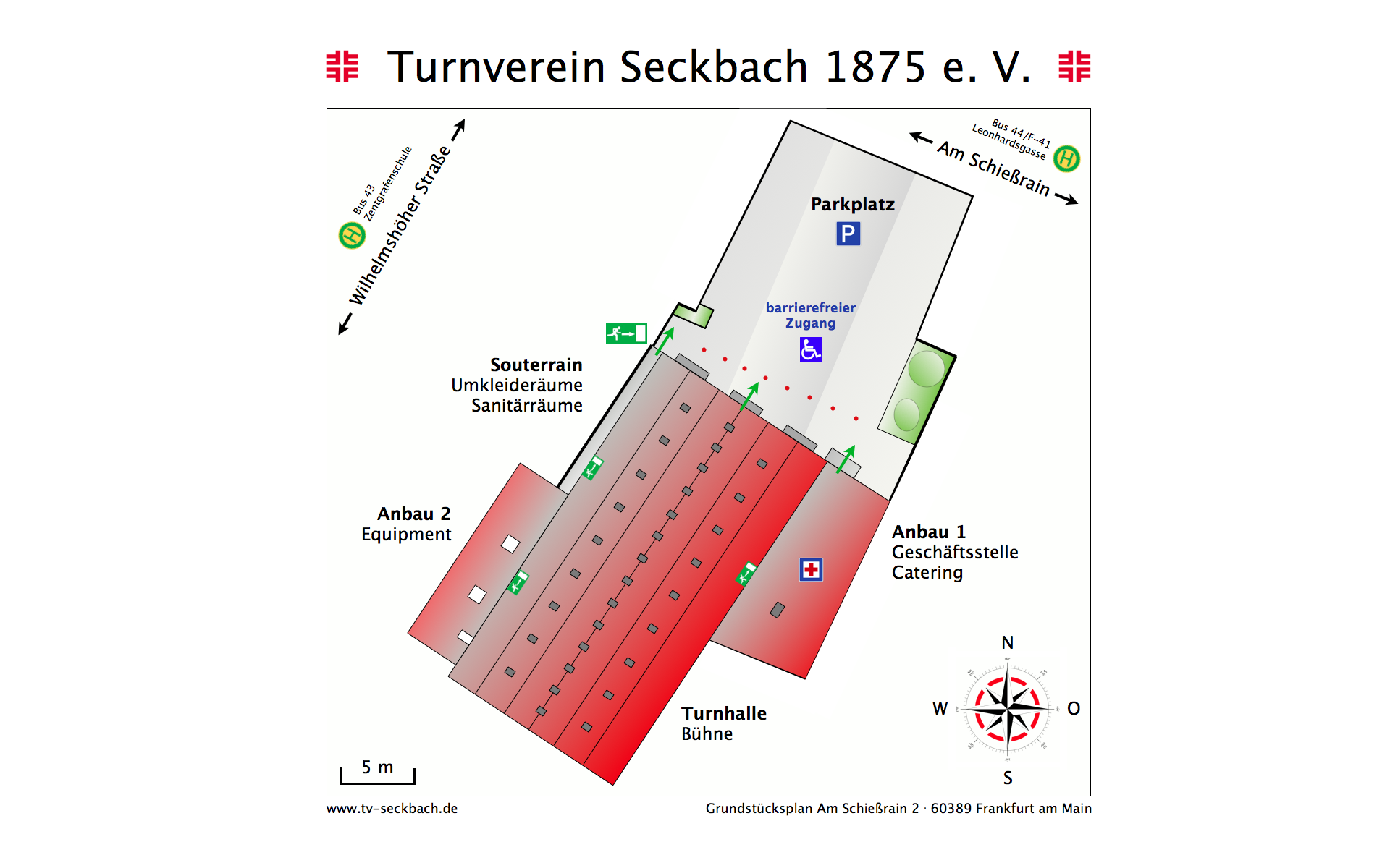 Realty of Turnverein Seckbach 1875 with gym in Frankfurt, Hesse, Germany